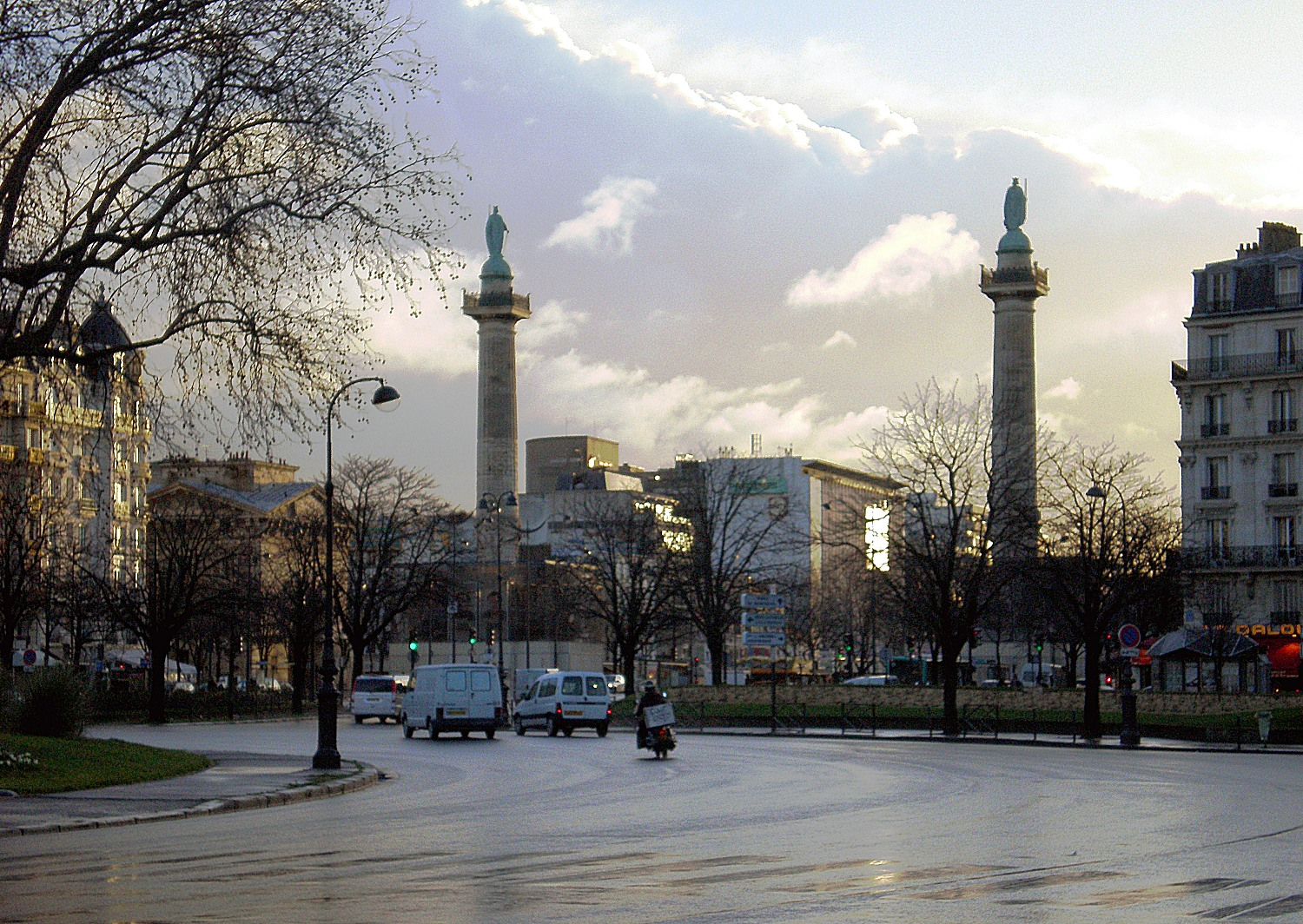 Place de la Nation - Paris